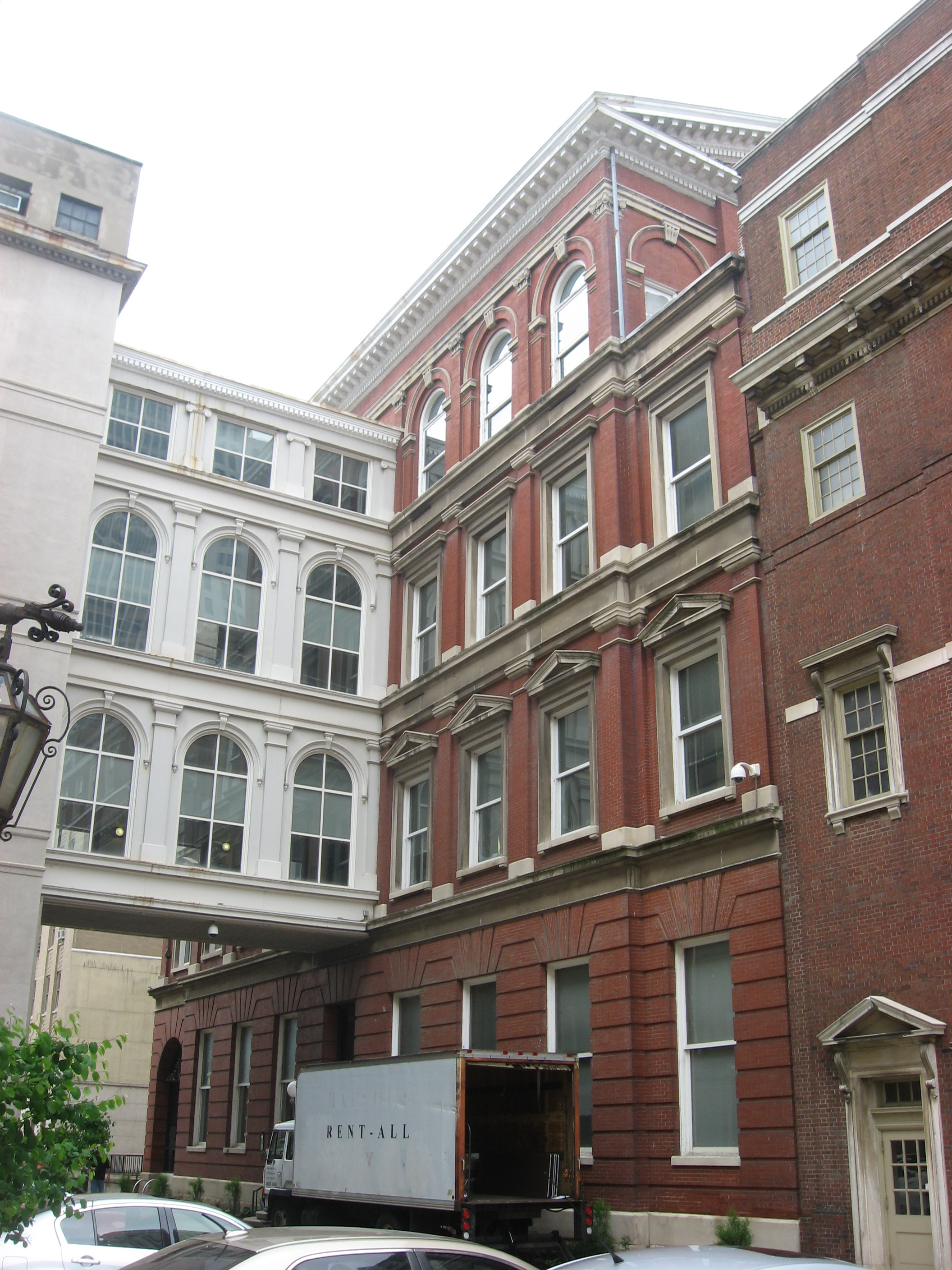 View from the southeast of the Jefferson County Courthouse Annex, located at 517 Court Place in Louisville, Kentucky, United States. Built in 1900, it is listed on the National Register of Historic Places.